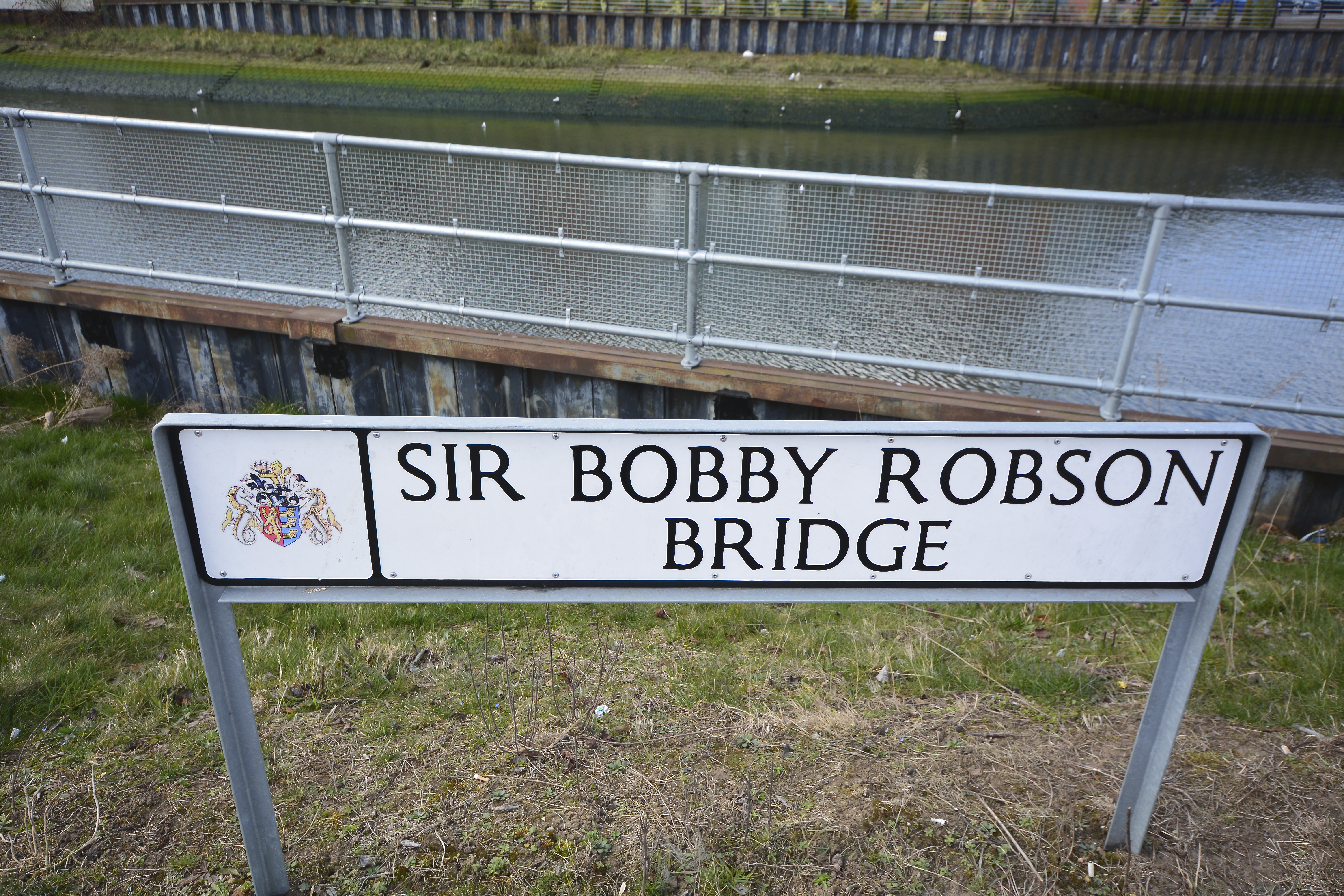 Ipswich, Sir Bobby Robson Bridge